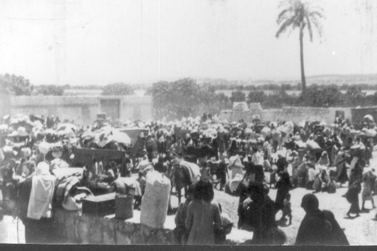 Lydda after conquest. 1948